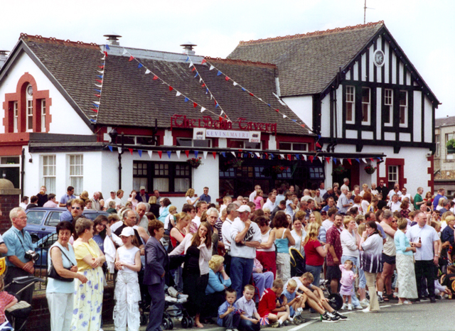 The Dean Tavern. Social centre of Newtongrange